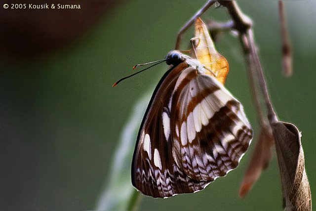 Short Banded Sailor, Neptis columella